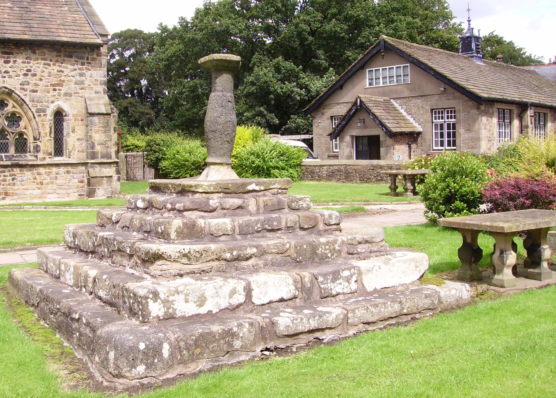 view of Ribchester, United Kingdom